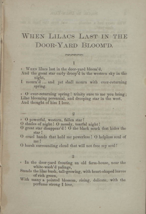 Walt Whitman's poem "When Lilacs Last in the Dooryard Bloom'd" from the first printing of Whitman Sequel to Drum-Taps: When Lilacs Last in the Dooryard Bloom'd and other poems (Washington DC: Gibson Brothers, 1865-1866), 3. The Walt Whitman Archive. Editors. Ed Folsom and Kenneth M. Price. 18 April 2011 Other information The Walt Whitman Archive releases its materials under Creative Commons Attribution-NonCommercial-ShareAlike 3.0 Unported License, which permits disseminating and alteration. Comprehensive attribution is stated above. This image was altered by cropping to focus entirely on the page and excise background in order to render this a two-dimensional (2D) scan or photograph of the work. As this work is in the public domain, and only a two-dimensional representation, it is not eligible for copyright protection, pursuant to Bridgeman Art Library v. Corel Corp., 36 F. Supp. 2d 191 (S.D.N.Y. 1999). This work remains free use and in the public domain.